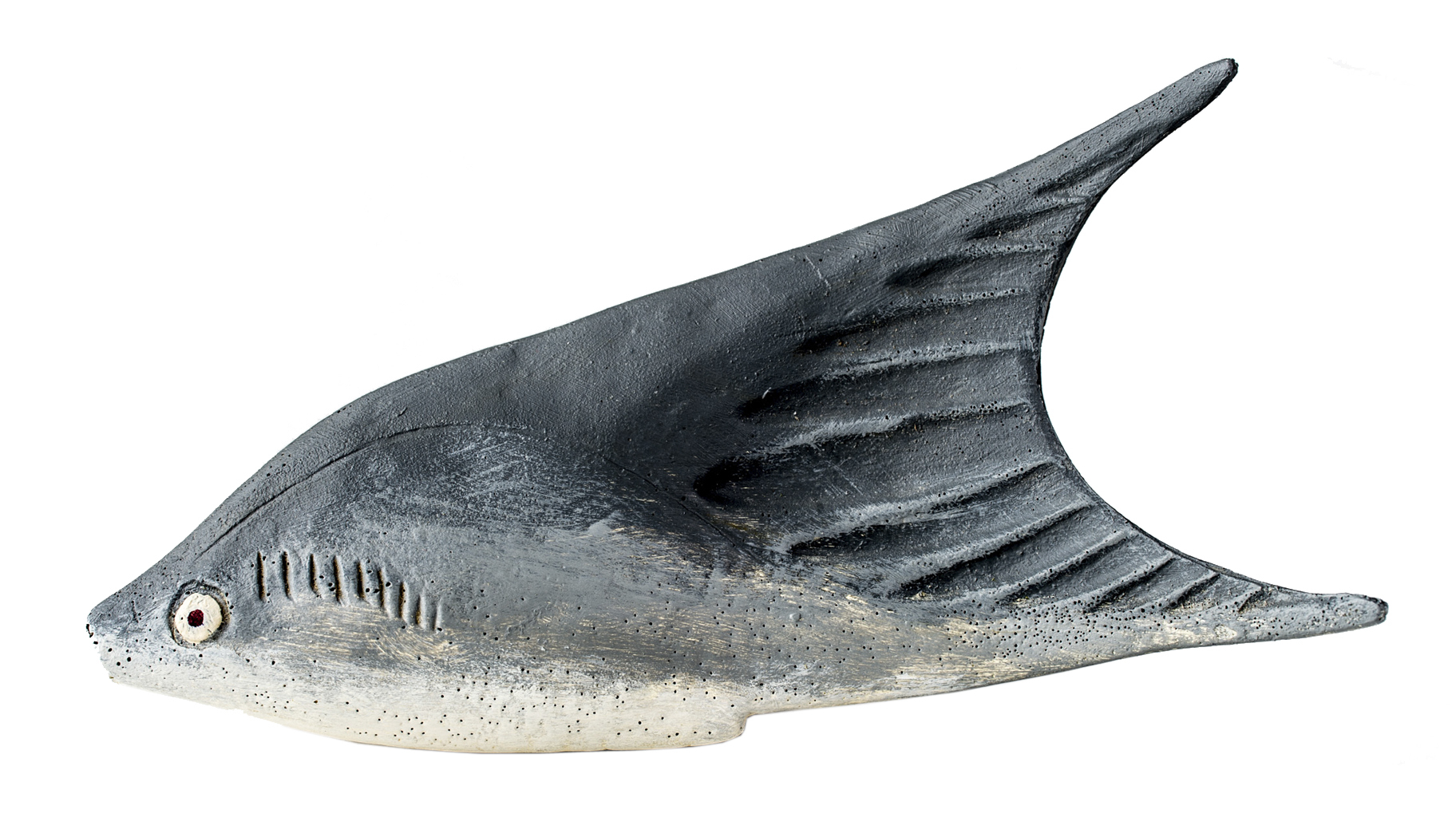 Life restoration.